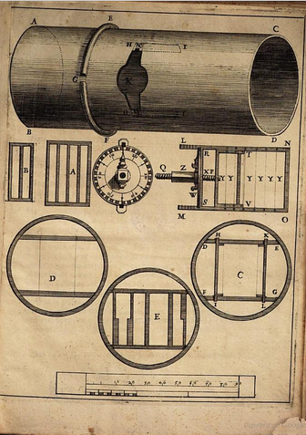 Adrien Auzout's (1621-1692) Micrometer published in his book (1662)